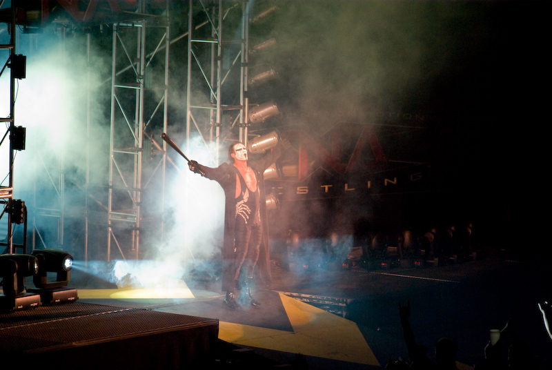 Professional wrestler Sting (real name Steve Borden) entering the arena at the TNA PPV "Bound to Glory IV"